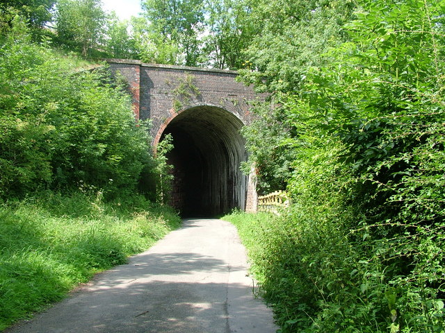 Mill Lane Railway Bridge, Great Ormside